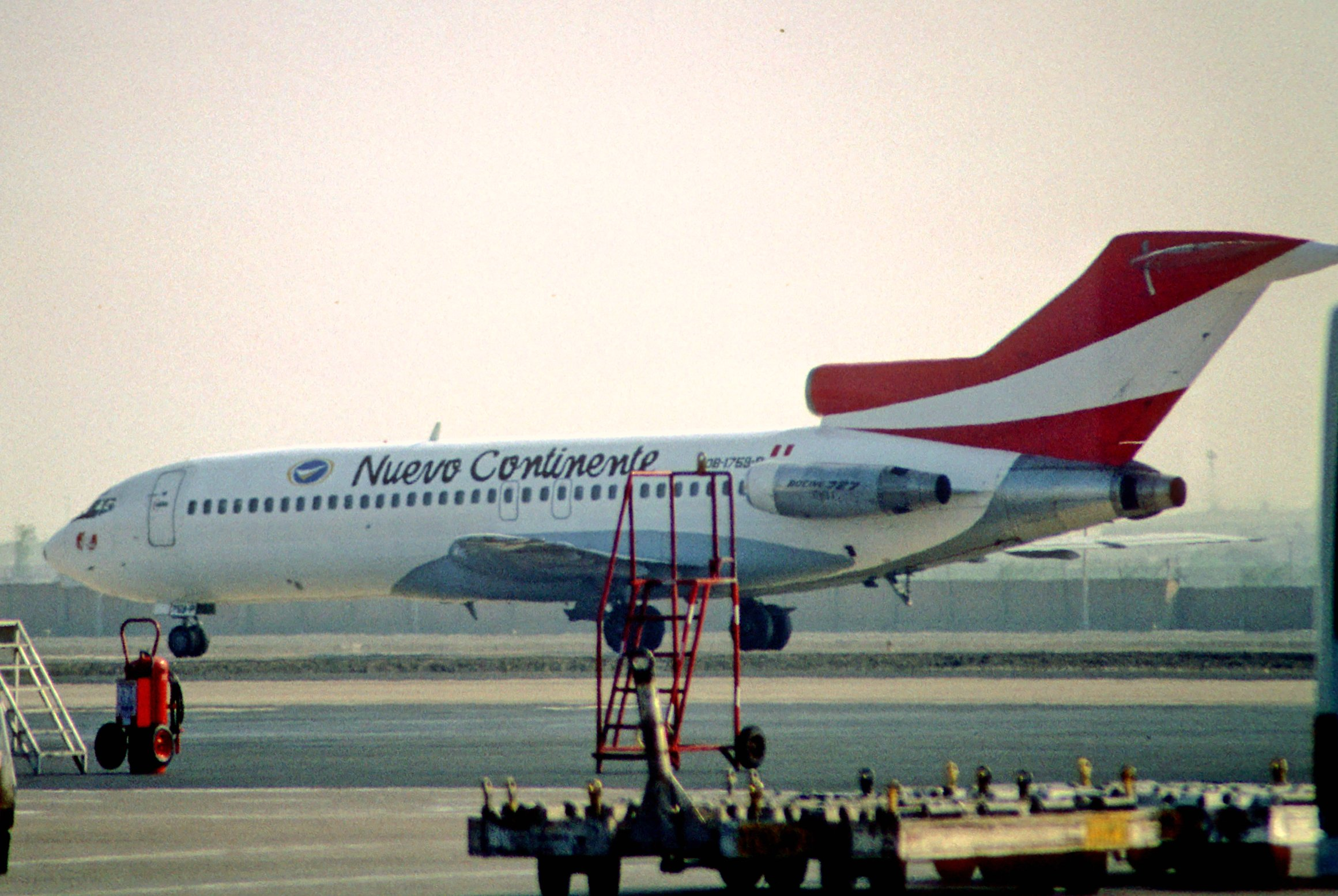 While this is rather a bad picture it shows something that cannot be seen anywhere else on the web (at least I was not able to find another pic): Nuevo Continente was the short-lived, and ill-fated, successor of Aero Continente. In order to save Aero Continente (that was grounded for a couple of days in 2004) the company's employees founded a new company - with the metal of N6...the success, however, failed to appear and the company disappeared in early 2005 (along with other planes still wearing Aero Continente colours...).